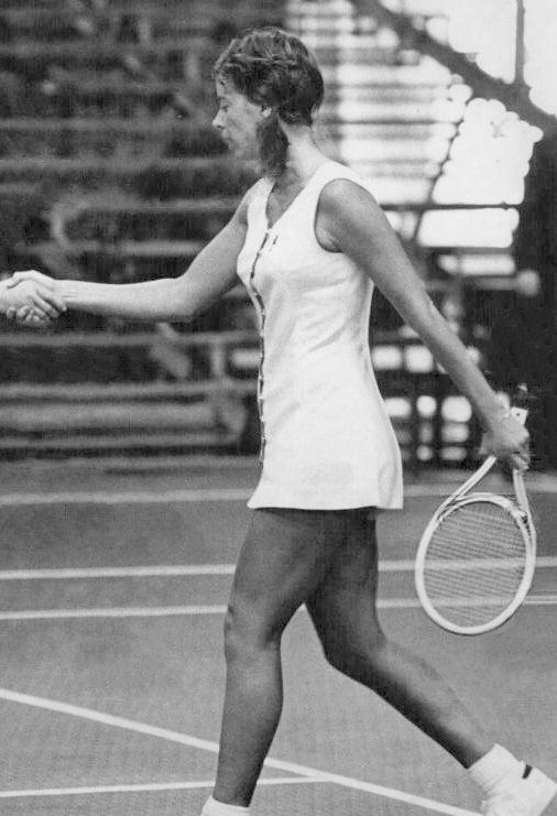 1969 Press Photo Kerry Harris